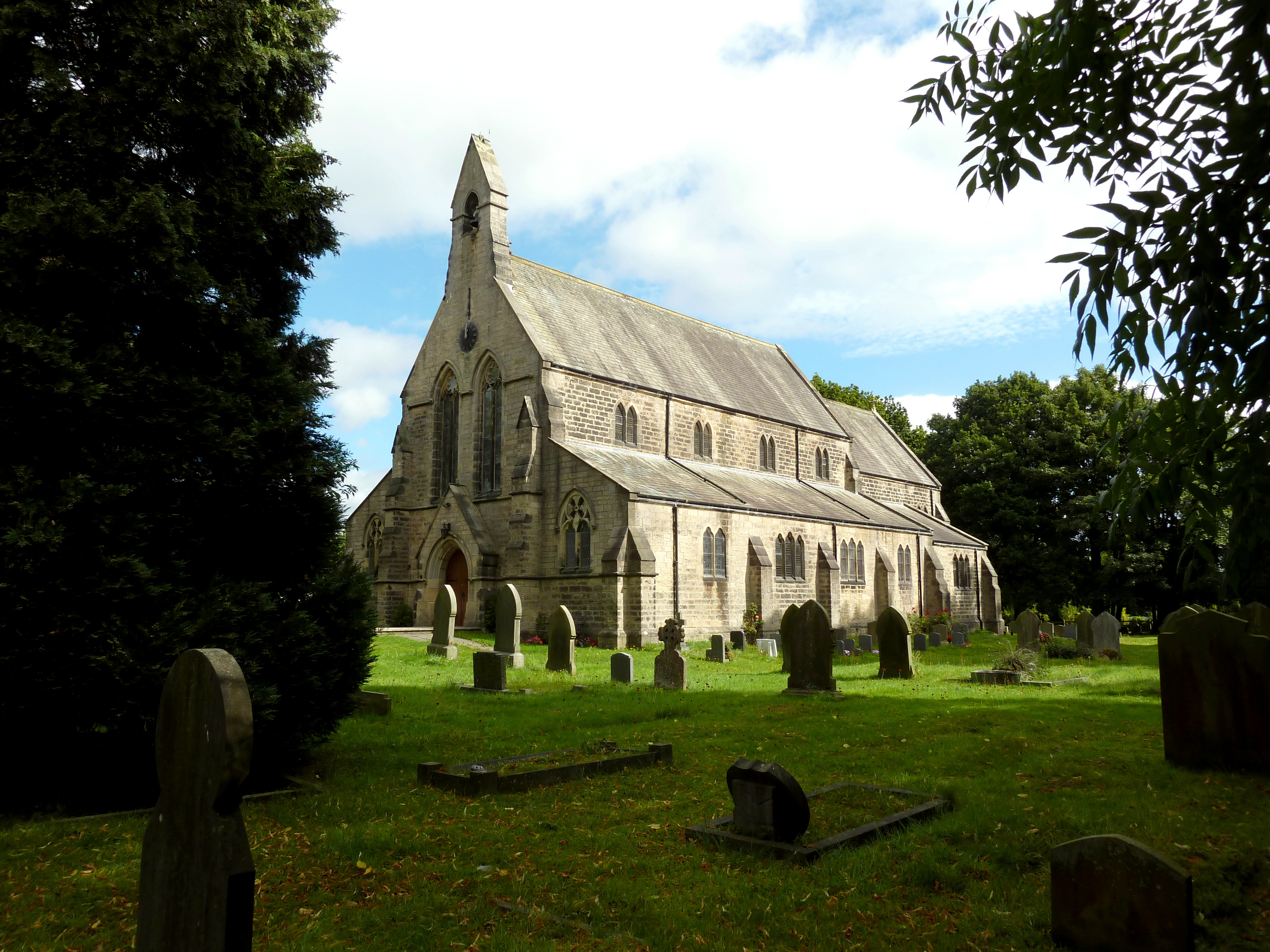 Church of St Thomas the Apostle, Anglican parish church at Killinghall, North Yorkshire, England. Designed by William Swinden Barber in 1879. South-west corner.